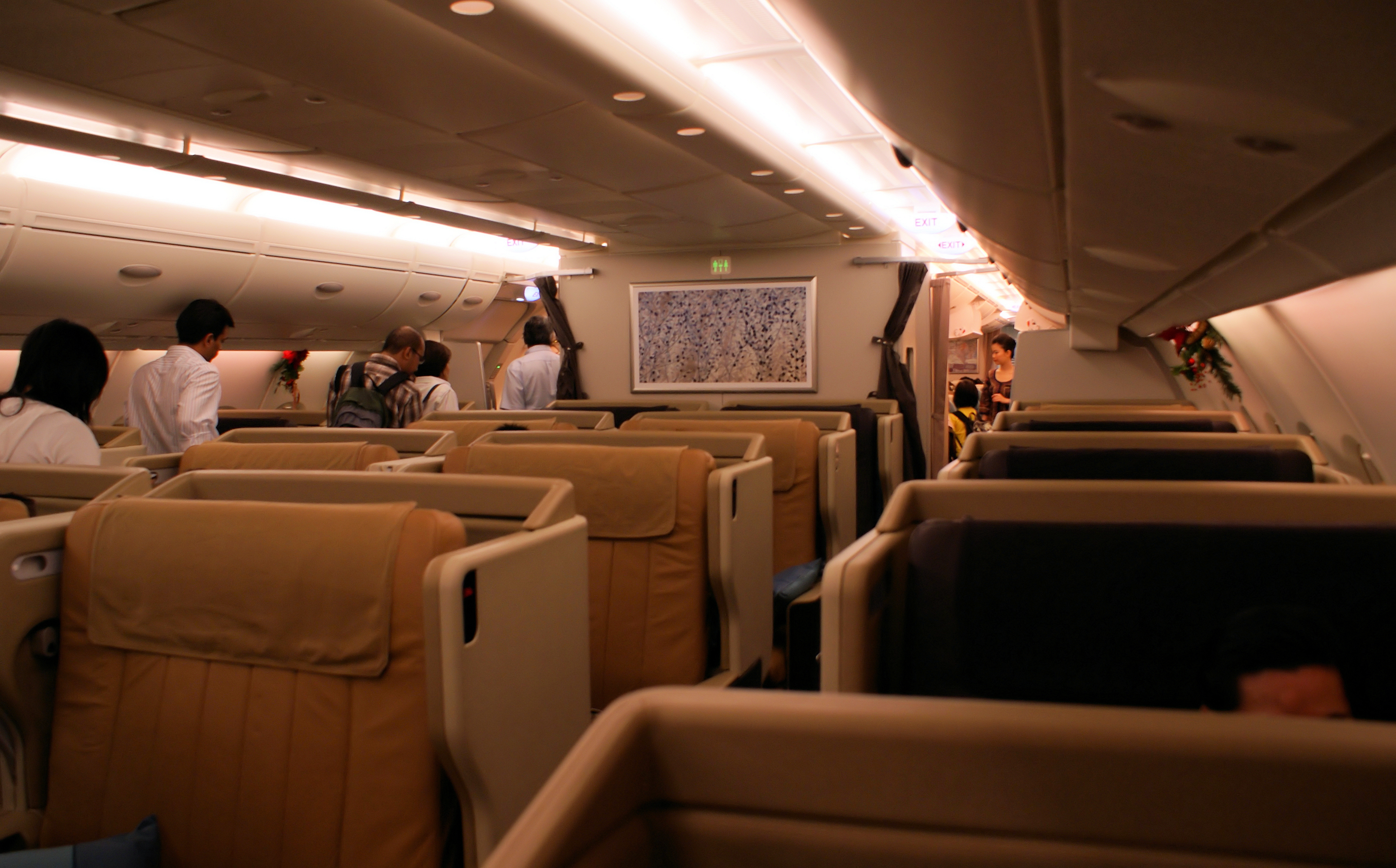 Singapore Airlines A380 Business Class view